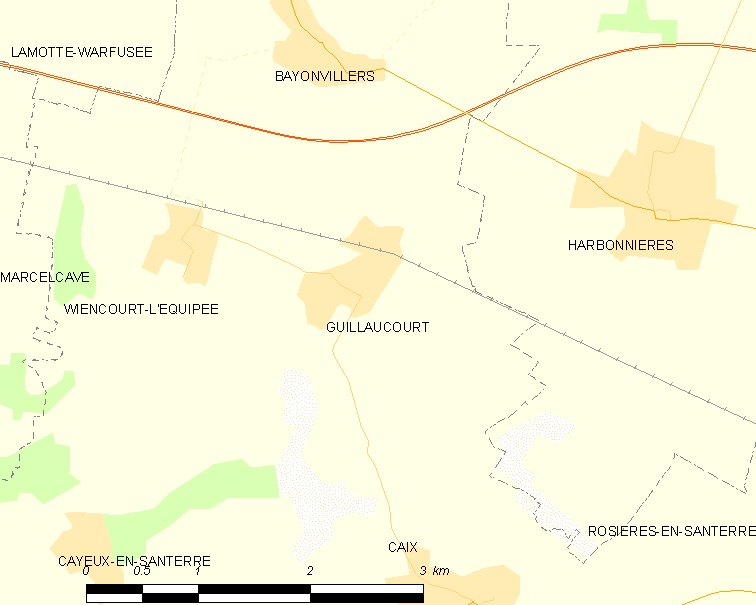 Map of French municipality Guillaucourt